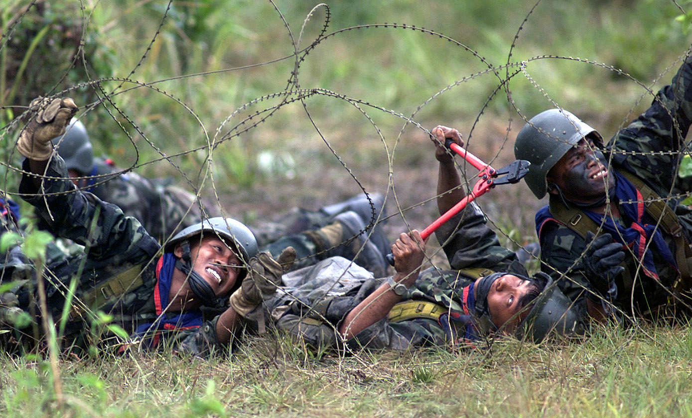 Royal Thai Army Infantry Soldiers practice breaching concertina wire during a combat tactics exercise, held at Thung Song, Thailand, during Exercise COBRA GOLD 2000.